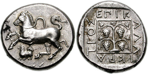 THRACE, Maroneia. Circa 386/5-348/7 BC. AR Tetradrachm (23mm, 11.40 gm, 10h). Kallikrates, magistrate. Horse rearing left, trailing rein; small long-haired dog (Pomeranian?) below / EPI K-ALL-IKRA-TEOS, grape arbor in linear square; all within shallow incuse square.